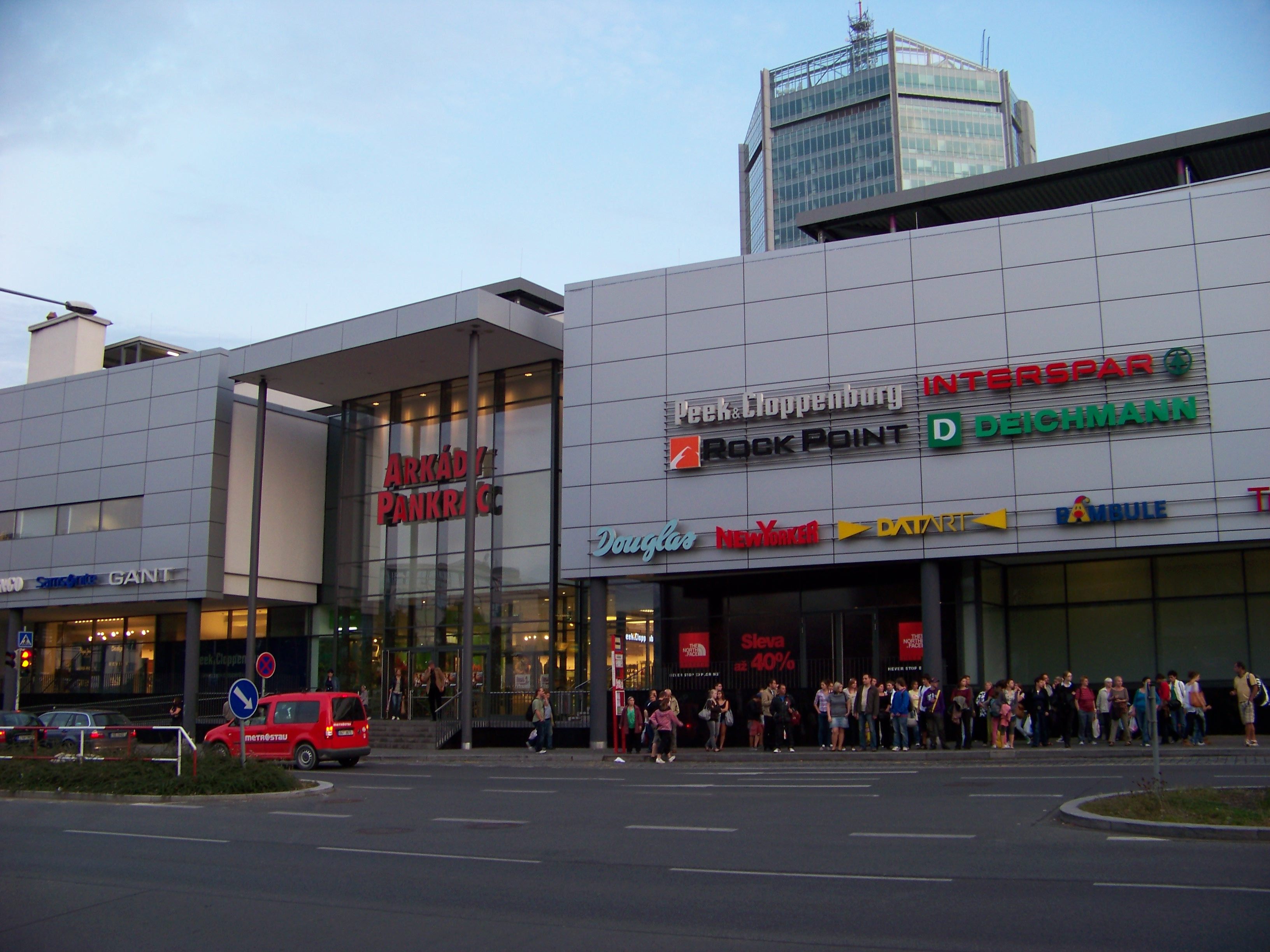 Prague-Nusle, the Czech Republic. Hvězdova street, Akrády Pankrác and City Empiria (Motokov).